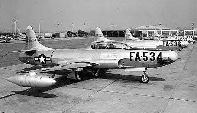 Pre-delivery of Block 5 F-94A aircraft at the Lockheed plant (S/N 49-2534, 536, 537, 543, 546, 547).